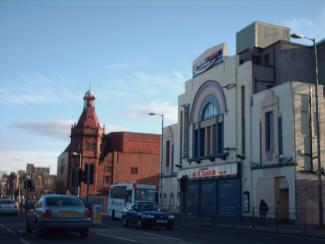 Carling Academy and Coliseum